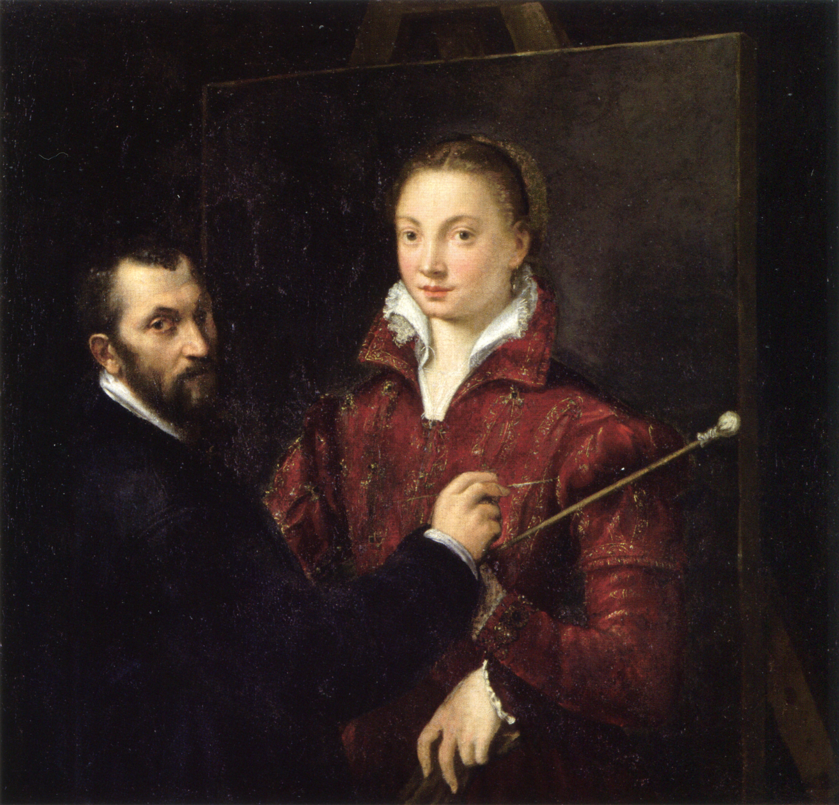 Self-portrait with Bernardino Campi. Oil on canvas, 1110 x 1095mm (43 3/4 x 43 1/8"). Pinacoteca Nazionale, Sienna.